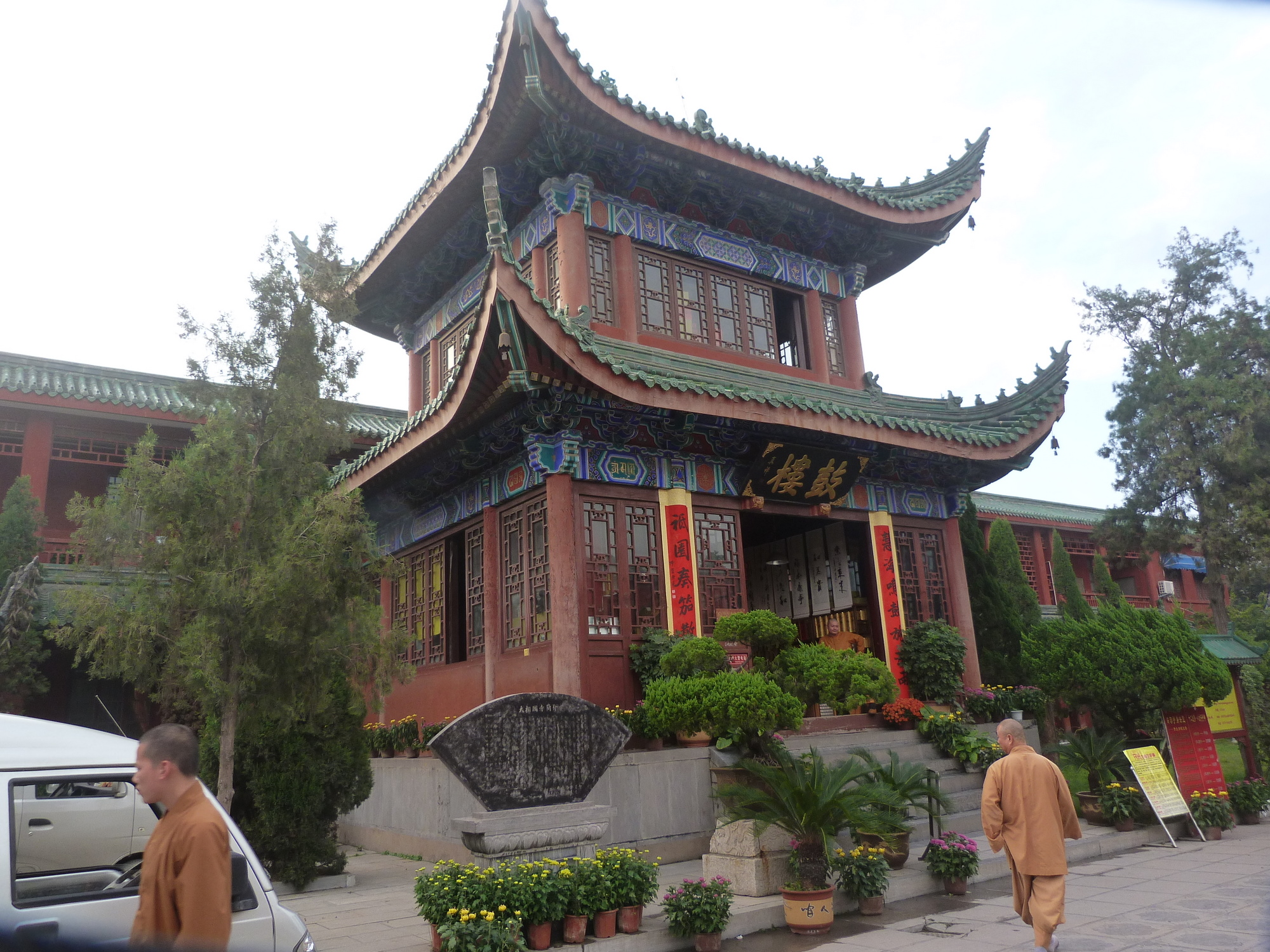 Drum tower in Daxianggo temple